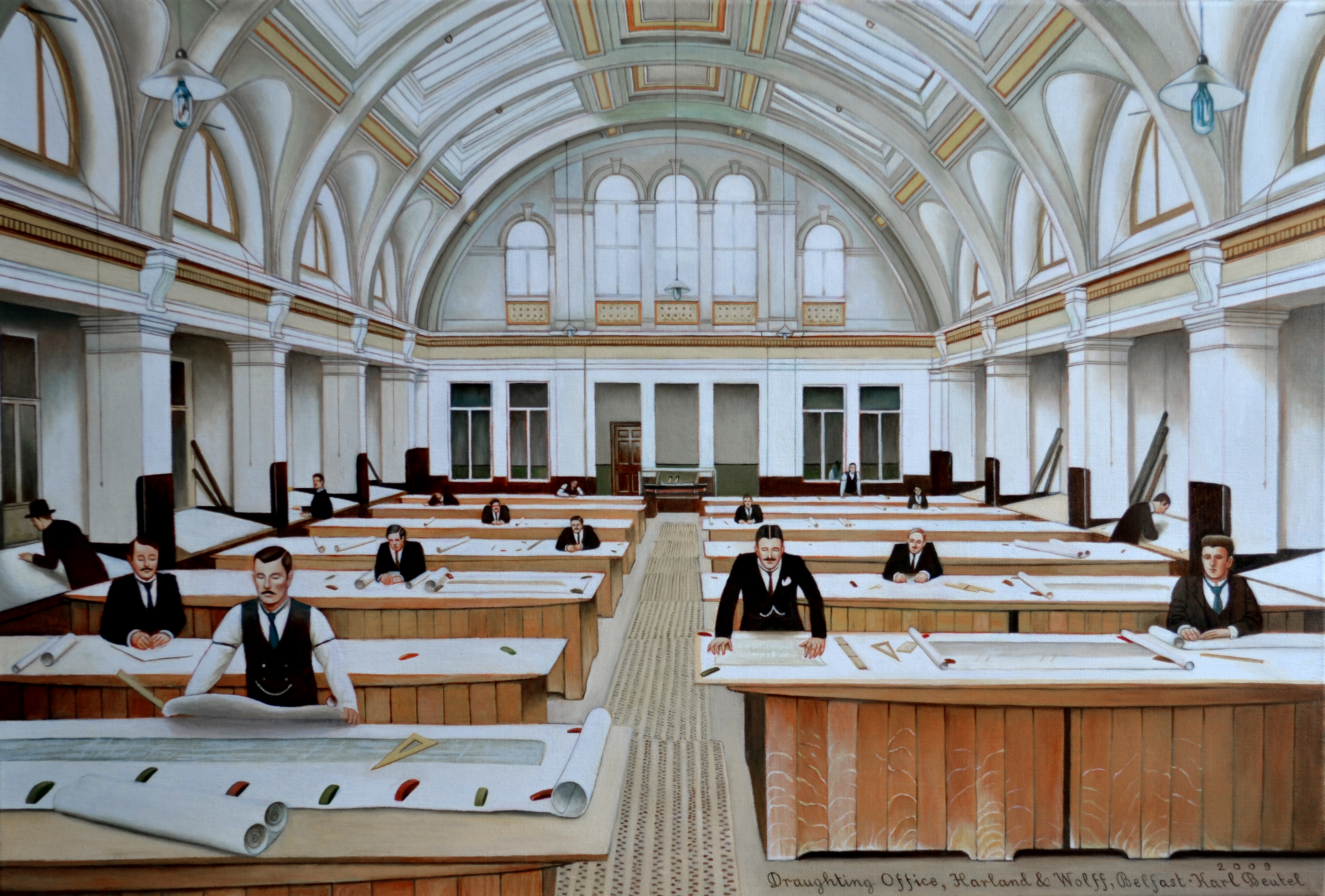 (Oil on canvas)Painted from a well known photo of the draughtsmen in their airy office at the time Olympic and Titanic were being designed and built.The long plans and sections were drawn on linen rather than paper at this time and slide rules and tables were the only means of calculation.